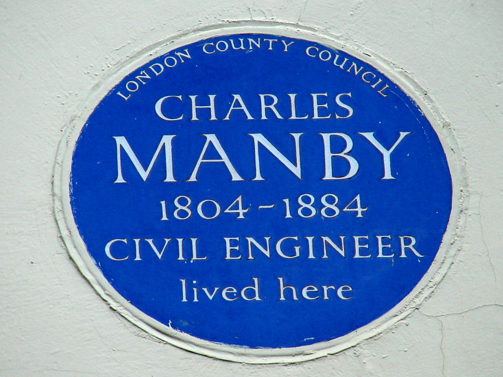 Charles Manby plaque at 60 Westbourne Terrace, Paddington, London W2 3UJ, City of Westminster